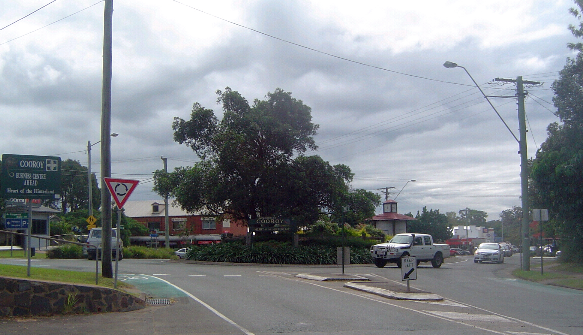 Main street of Cooroy, looking northwards